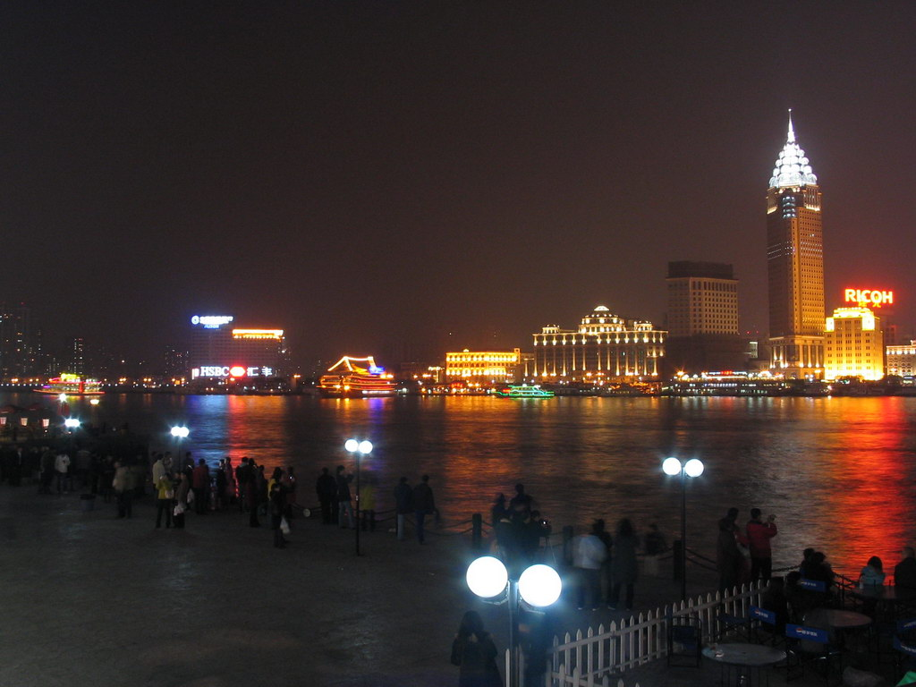 滨江大道夜景，黄浦江对岸为外滩 Riverside Avenue at night, The Bund can be seen at the other side of Huangpu River.